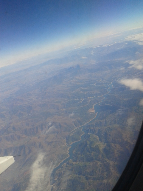 Artificial Lake Fierza in Northern Albania. Dam of the lake at the bottom of the image.